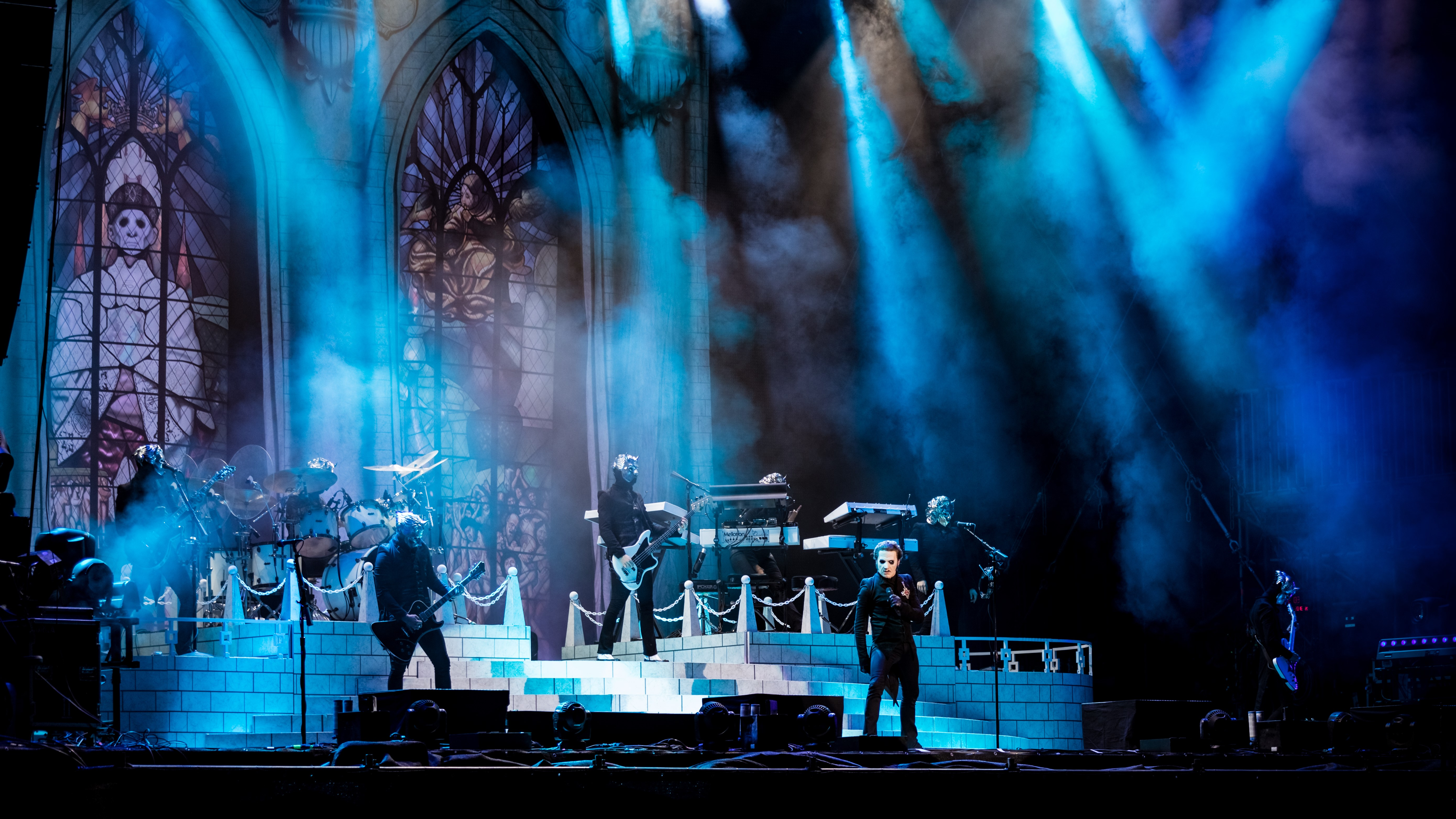 Ghost performing at Wacken Open Air 2018